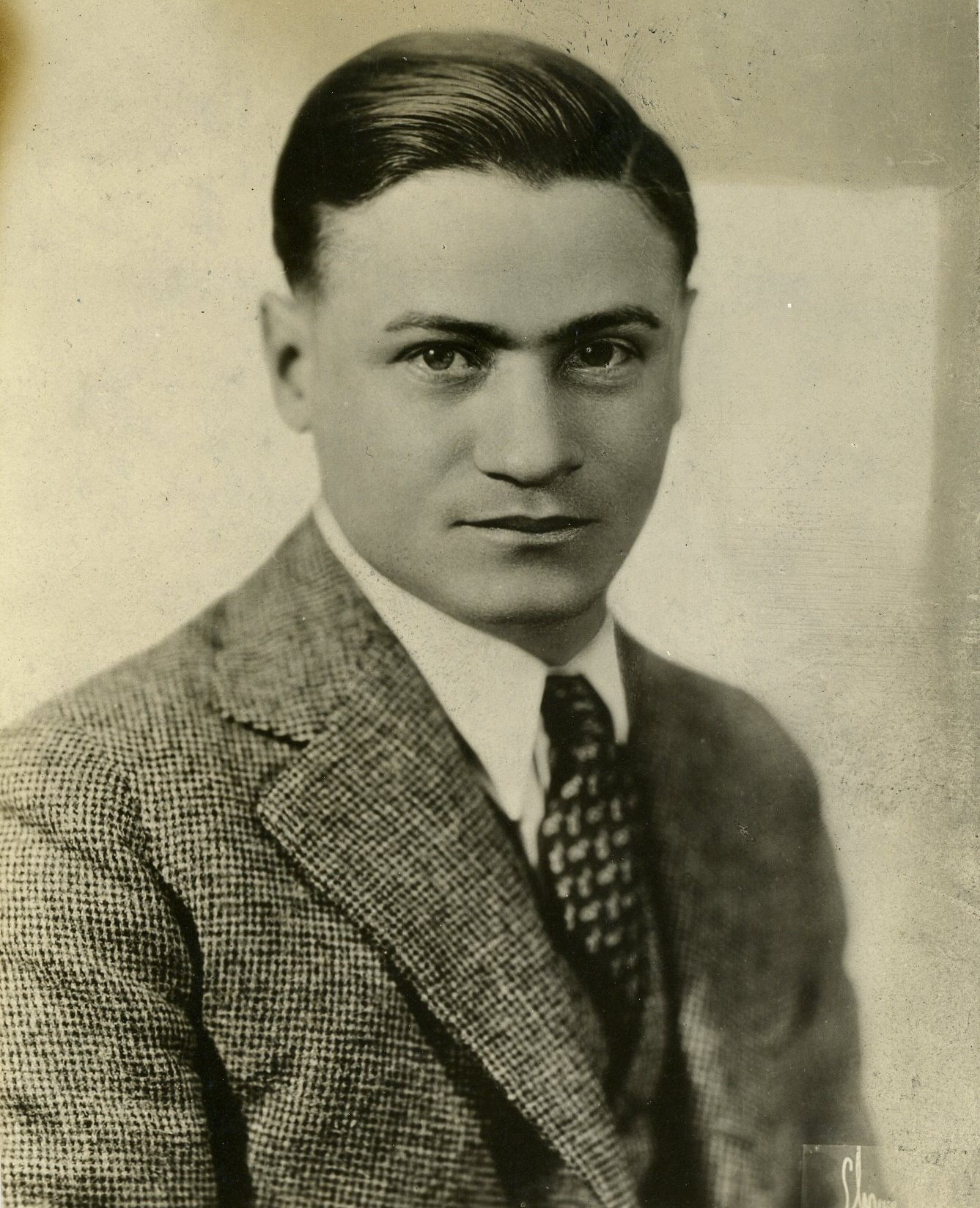 Emanuel Haldeman-Julius, ca. 1923-24. From the Haldeman-Julius family collection. (This photograph also appeared in McClure's in August, 1924.)